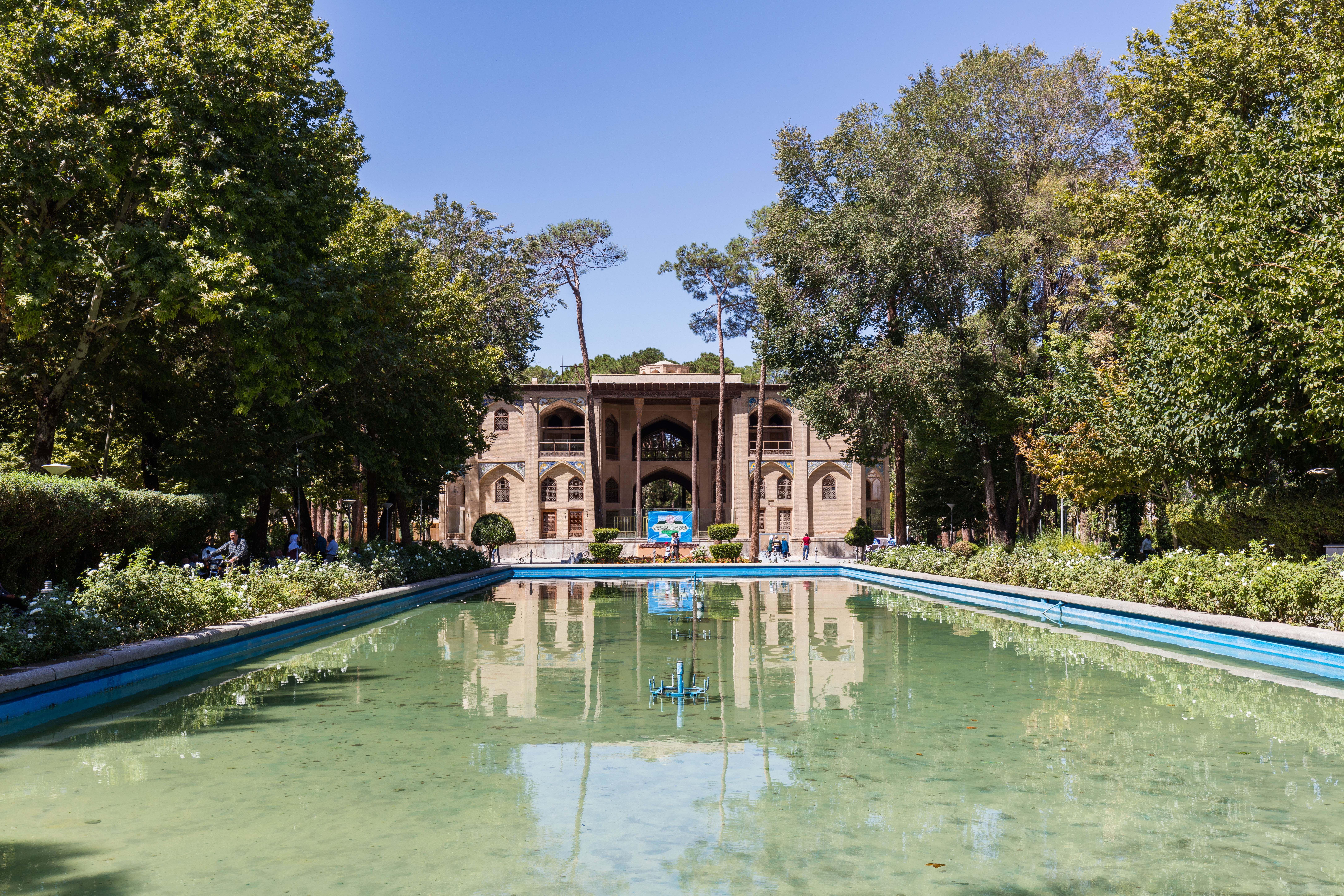 Hasht Behesht Palace, Isfahan, Iran